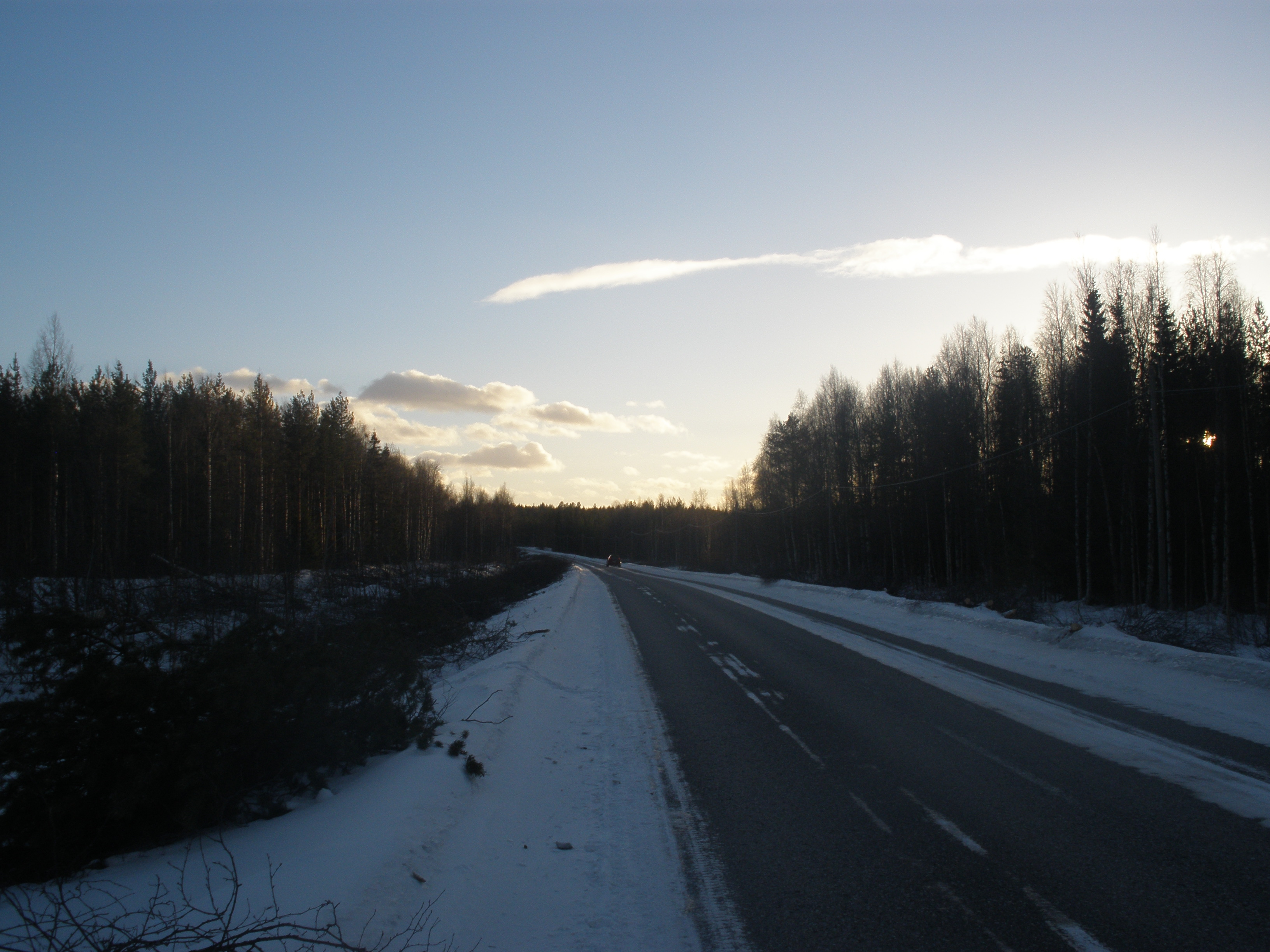 Regional road 926 near Paavalniemi in Rovaniemi, Finland.